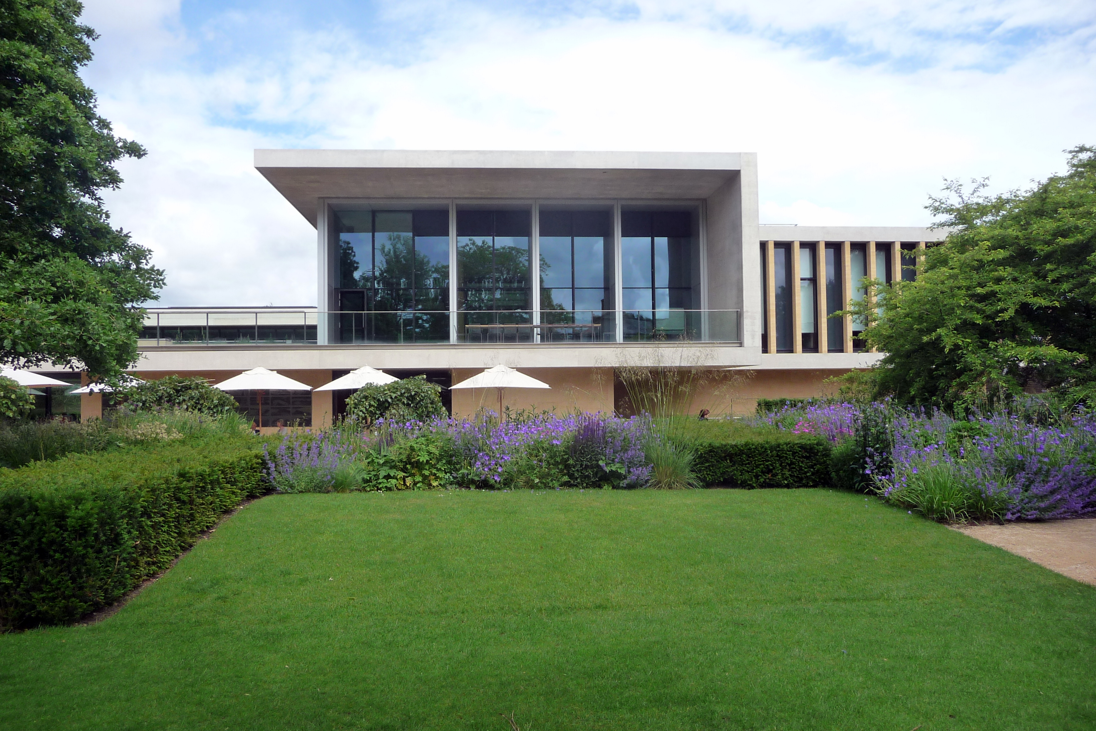 Stanton Williams Architects